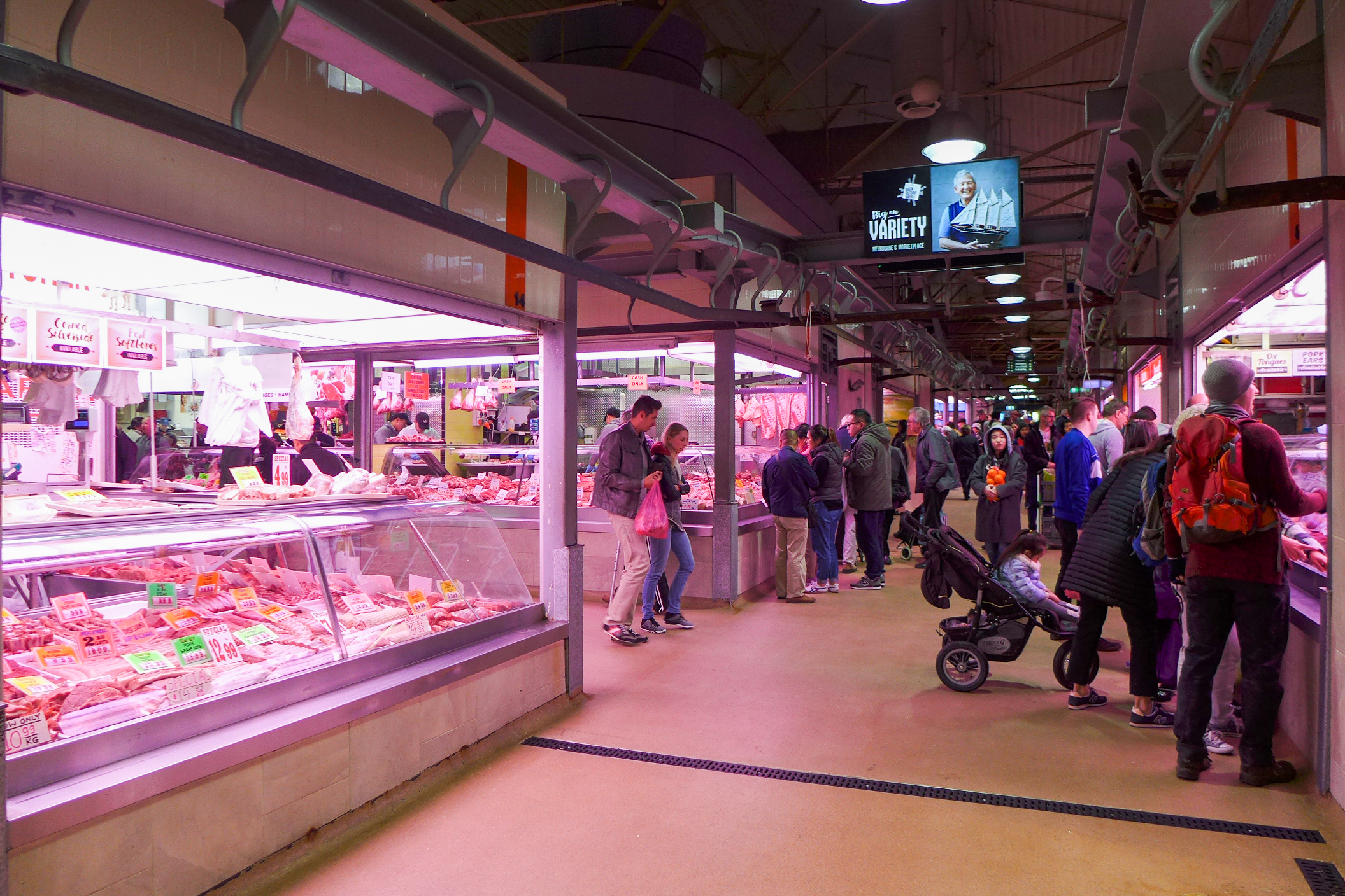 Queen Victoria Market